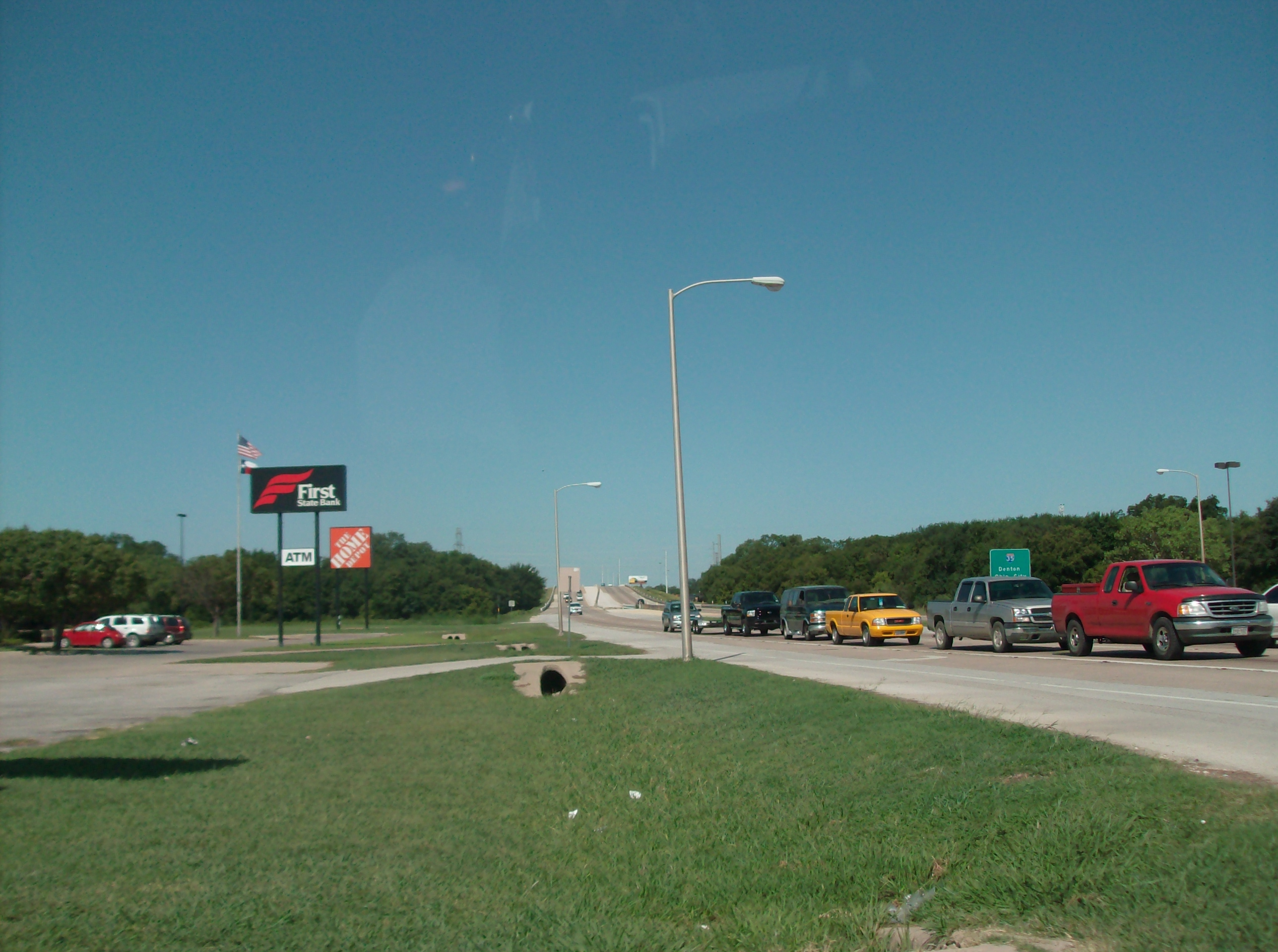 Highway 82, Lawrence Street, Gainesville, Texas, USA.